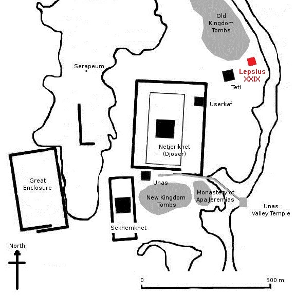 A map of north-Saqqara. In red, the "Lepsius pyramid XXIX" (also known as the "Headless Pyramid") believed to be the burial place of king Menkauhor of the 5th Dynasty.[1]